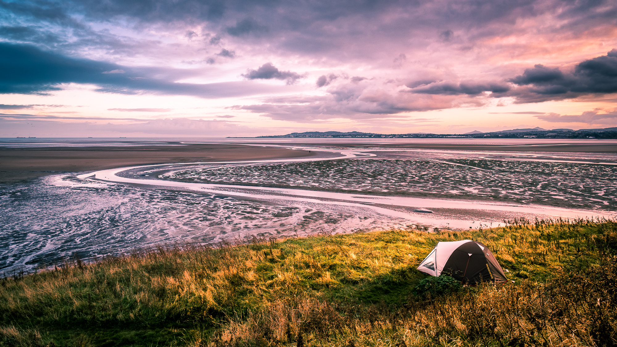 500px provided description: Check out my gallery at if you want to see more pictures. You can follow me on [#sky ,#sea ,#sunset ,#nature ,#beach ,#travel ,#clouds ,#outdoor ,#view ,#grass ,#seascape ,#traveller ,#photography ,#ireland ,#hiking ,#camping ,#dublin ,#tent ,#hike]